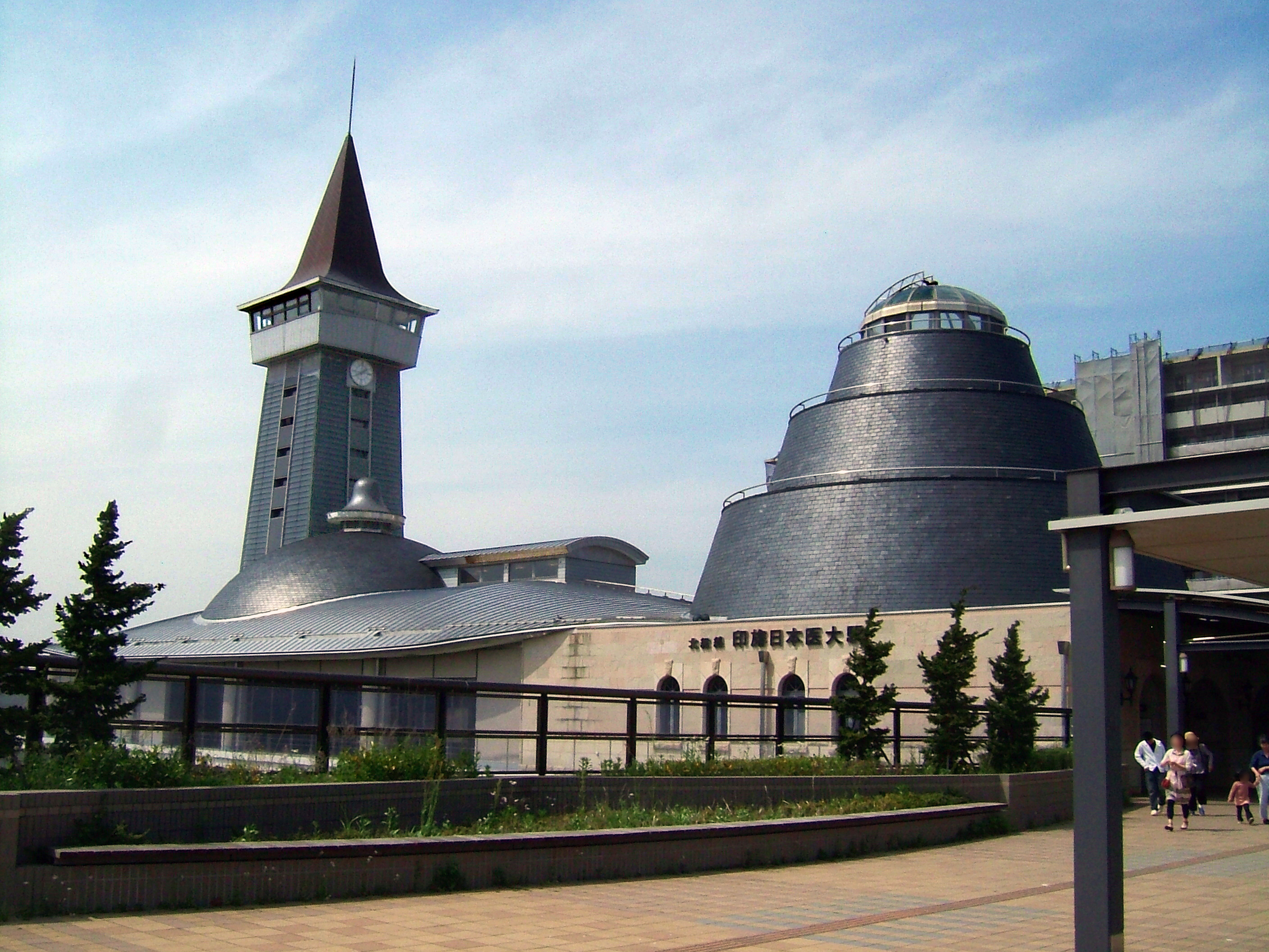 Inba-Nihon-Idai Station (Hokuso Line)